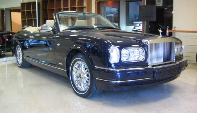 2002 Rolls-Royce Corniche Photographed in Greenwich, CT